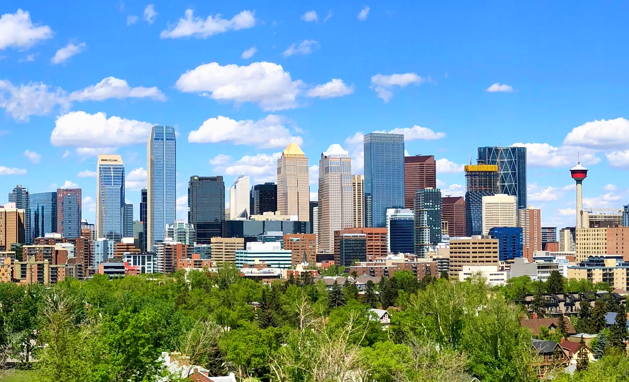 Downtown Calgary, Alberta in May 2018